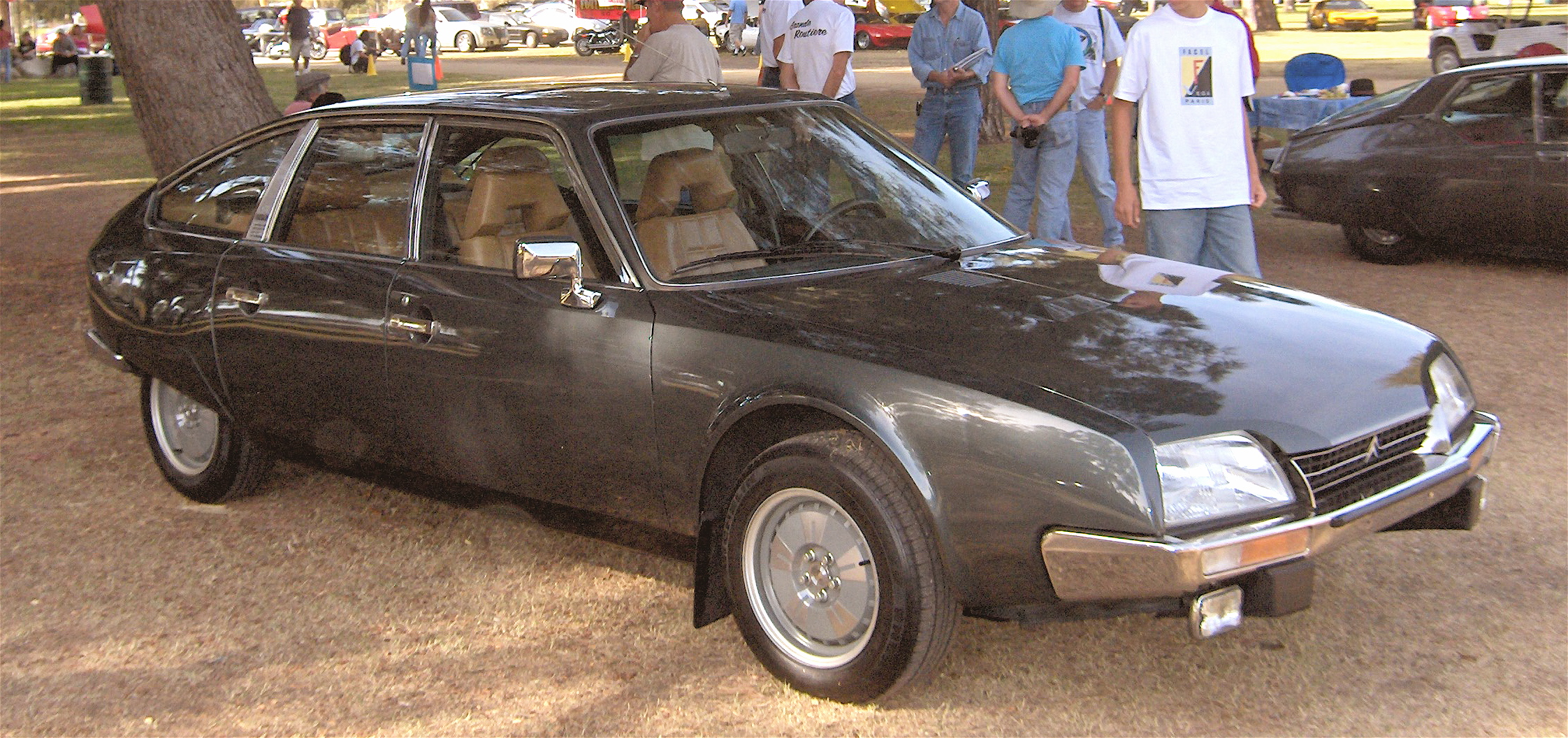 Own photo - public location